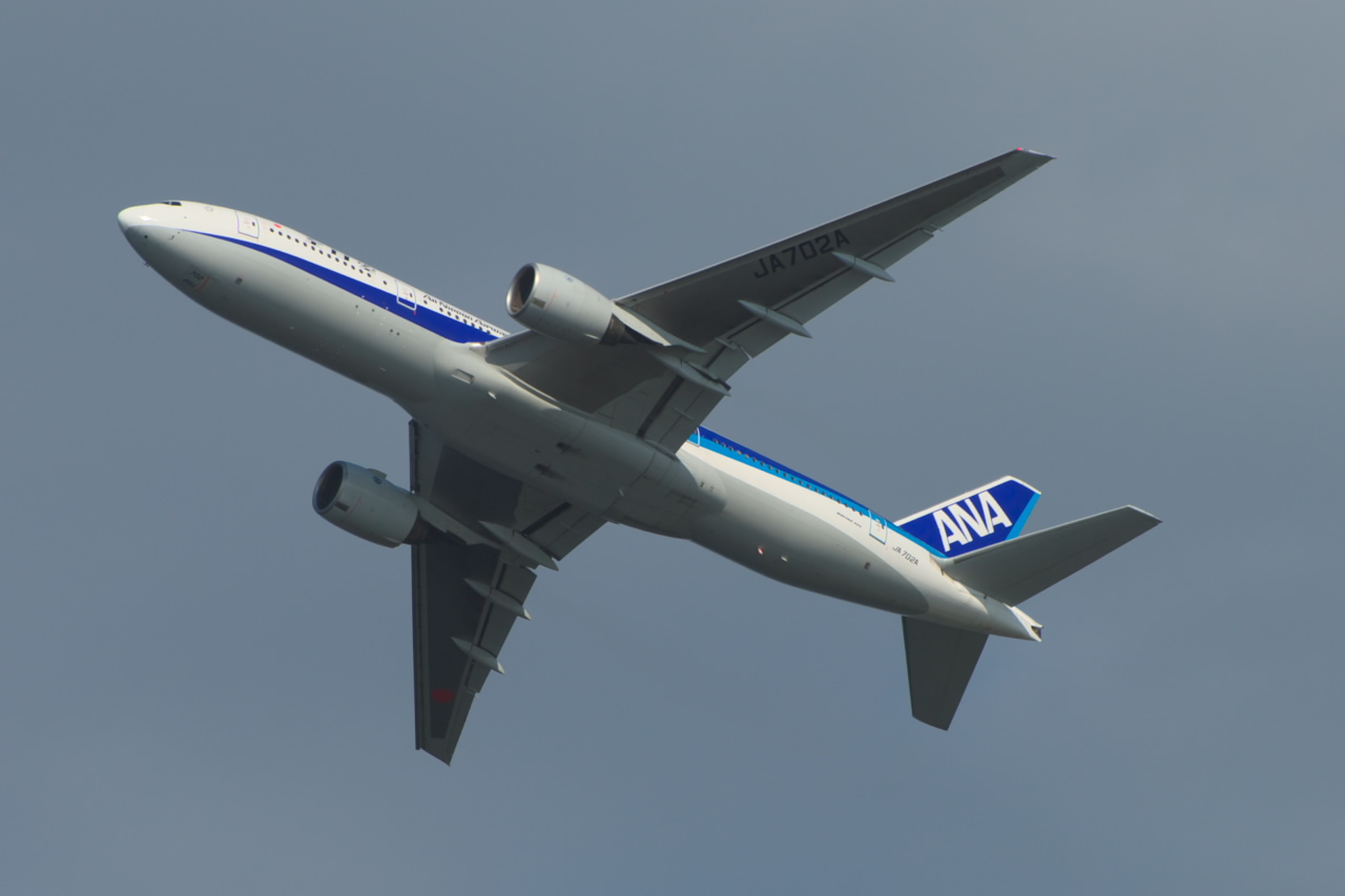 ANA B777-281(JA702A),flight NH31 for Osaka airport(ITM/RJOO) depature from runway 34R of Tokyo international airport(HND/RJTT). It taken on the park of Keihinjima island. 京浜島つばさ公園から離陸する伊丹行きANA 31便のボーイング777-281を撮影した。 離陸後に右旋回するので、京浜島からは機体のおなかがよく見える。